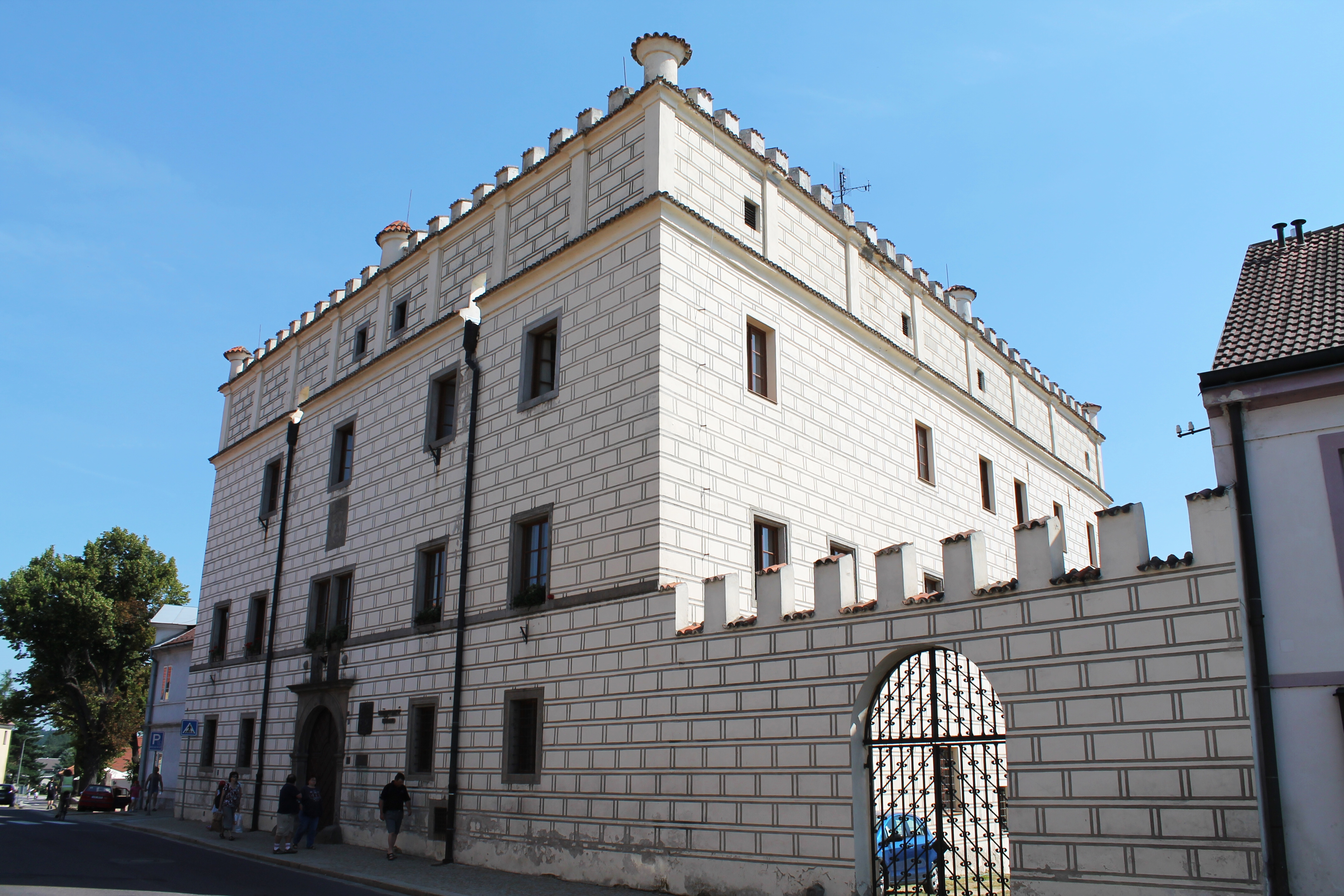 Old castle, Dačice, Jindřichův Hradec District, Czech Republic